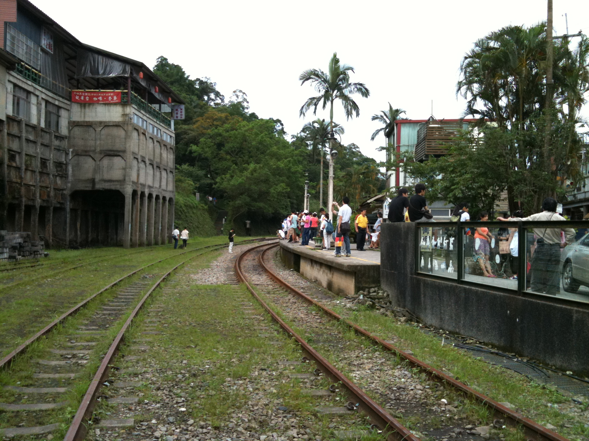 The Jingtong Railway Station in Pingxi Township, Taipei County, Taiwan.